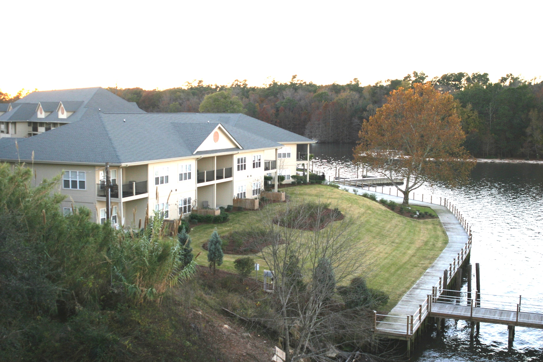 New condominium on Lake Marion, Santee, South Carolina New condominium on Lake Marion, Santee, South Carolina